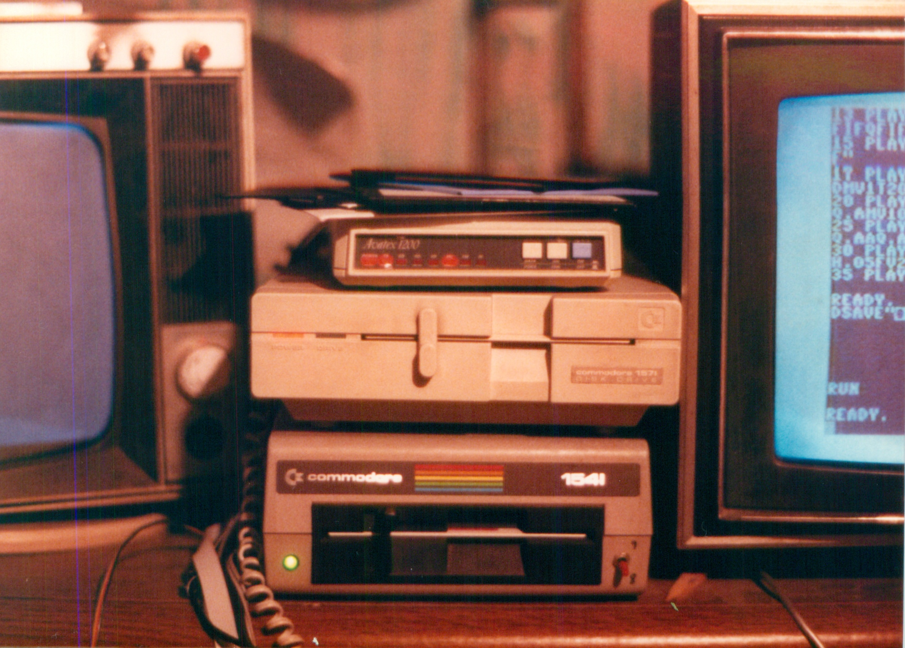 SLR photo of a Commodore 128 set-up with a 1541, 1571, 1200 baud Modem, and two displays